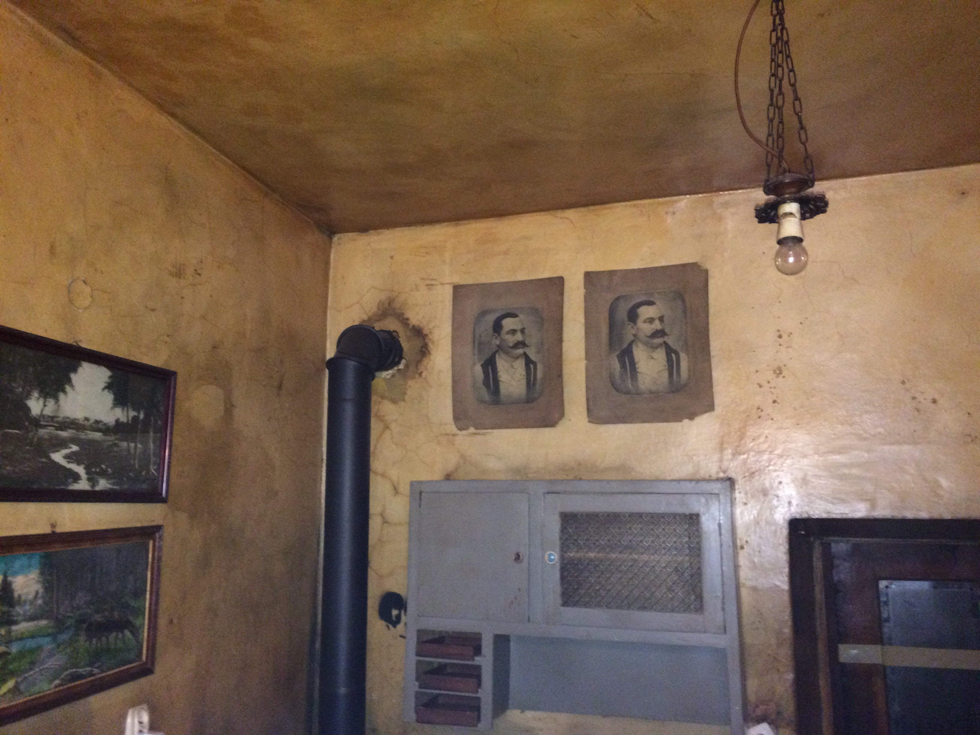 One of the rooms in the Eszeweria Cafe in Kraków, Poland, at Józefa Street 9. A multiplied image of the peasant activist Franciszek Ptak is hung on the wall.